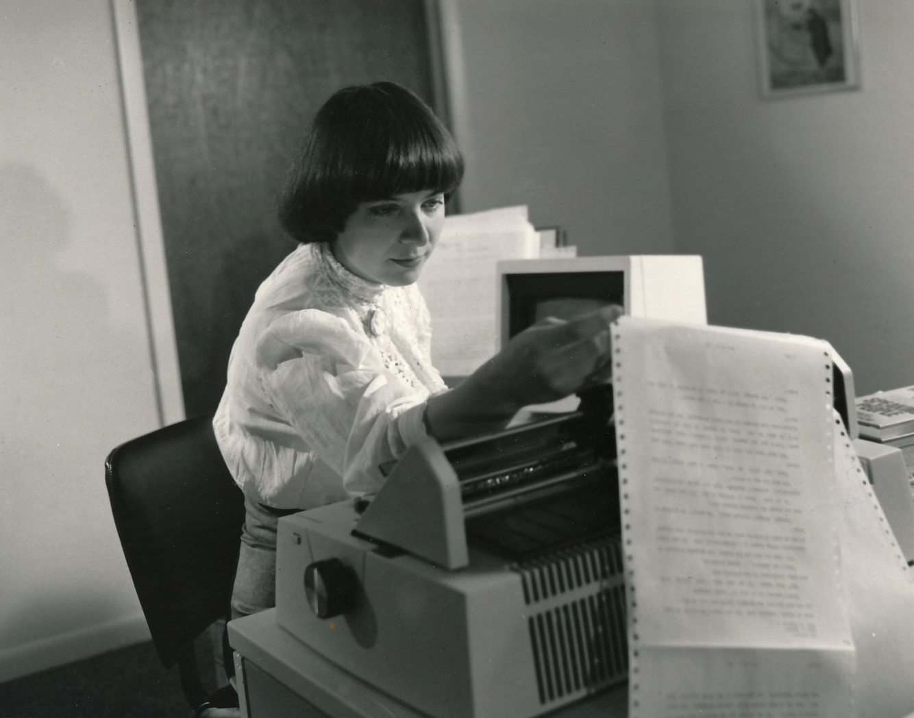 [Placing file in Wikimedia Commons in order to have proper URL citation in email to ] Photo is of NYTimes Bestselling author Gay Courter while working on her book, The Midwife, in 1977 - to include on Wikipedia Page (